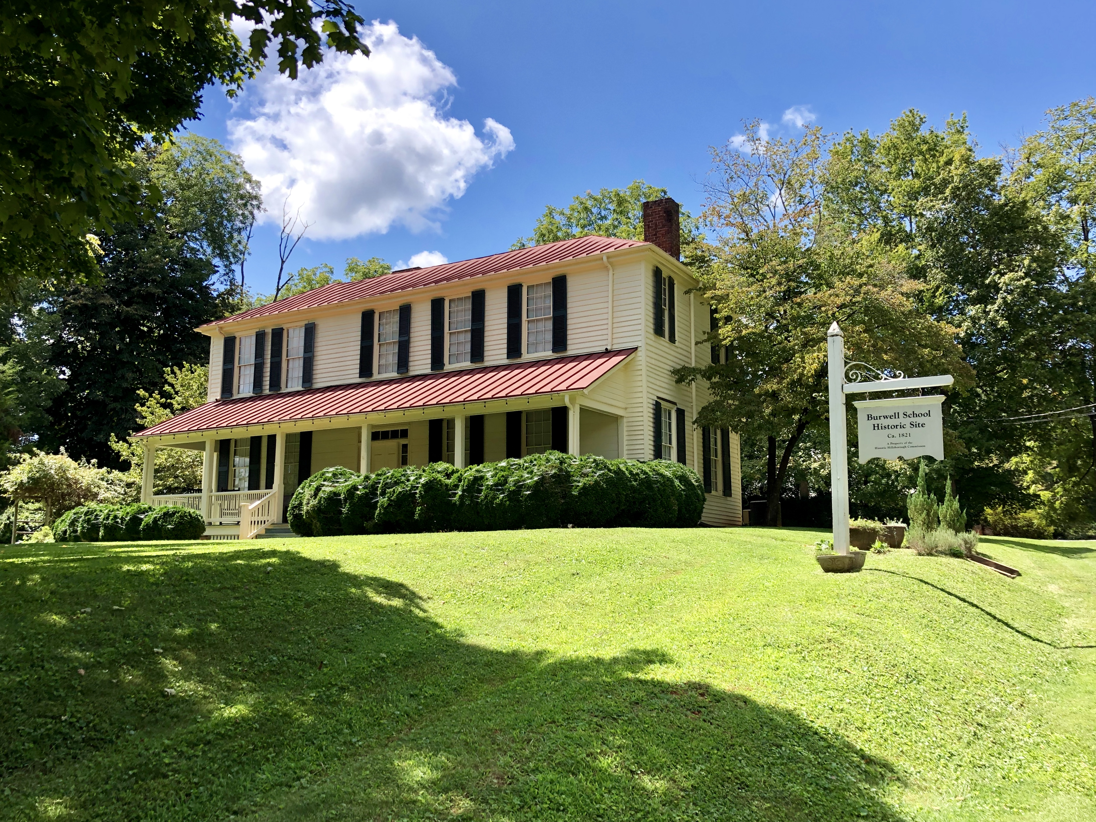 This is the Burwell School, located on Churton Street in Hillsborough, North Carolina. Constructed in 1821, the building was converted to a school in 1837, and was in use as a school until 1857. The building was listed on the National Register of Historic Places in 1970.